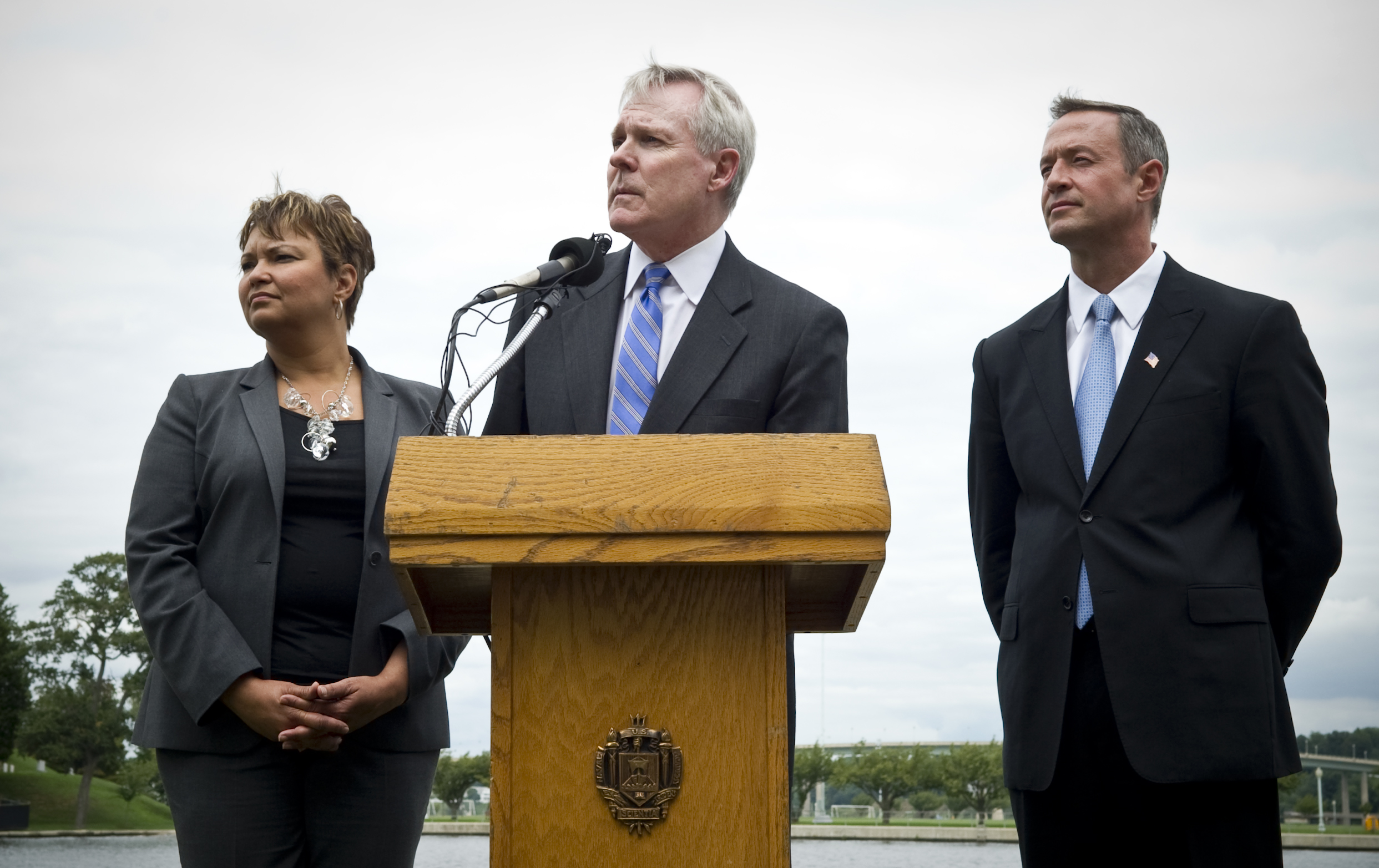 ANNAPOLIS, Md. (Aug. 25, 2010) Secretary of the Navy (SECNAV) the Honorable Ray Mabus, center, Environmental Protection Agency Administrator Lisa Jackson, left, and Maryland Gov. Martin O'Malley answer questions from the media following the Chesapeake Bay Base Commanders' Conference at the U.S. Naval Academy. (U.S. Navy photo by Mass Communication Specialist 2nd Class Kevin S. O'Brien/Released)